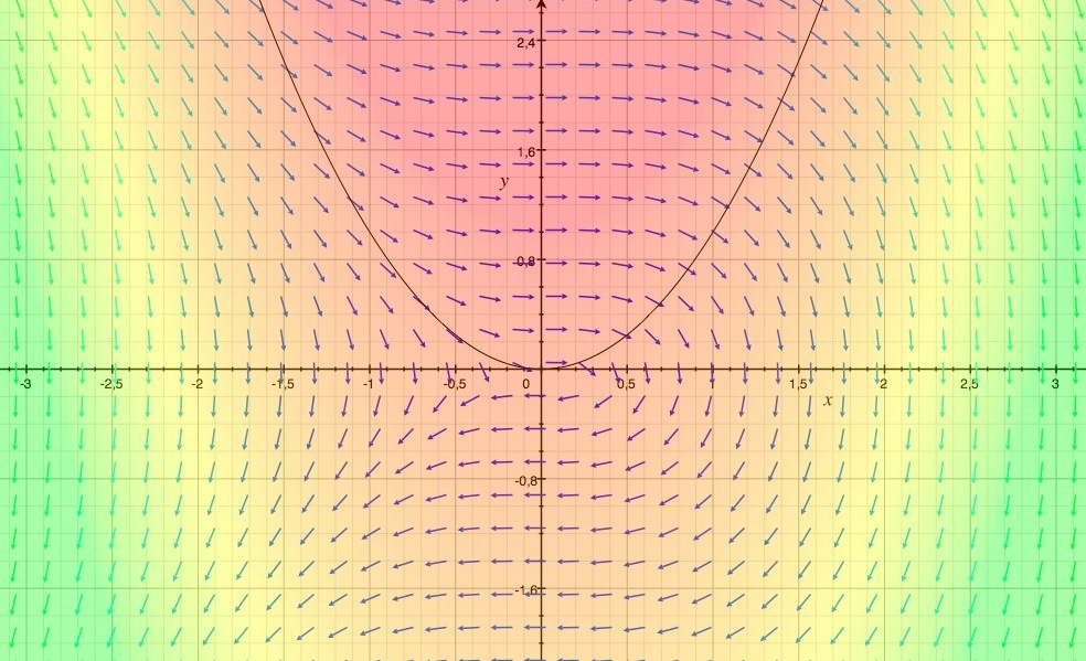 A R2 → R2 vectorial function and its divergence represented by a scalar field